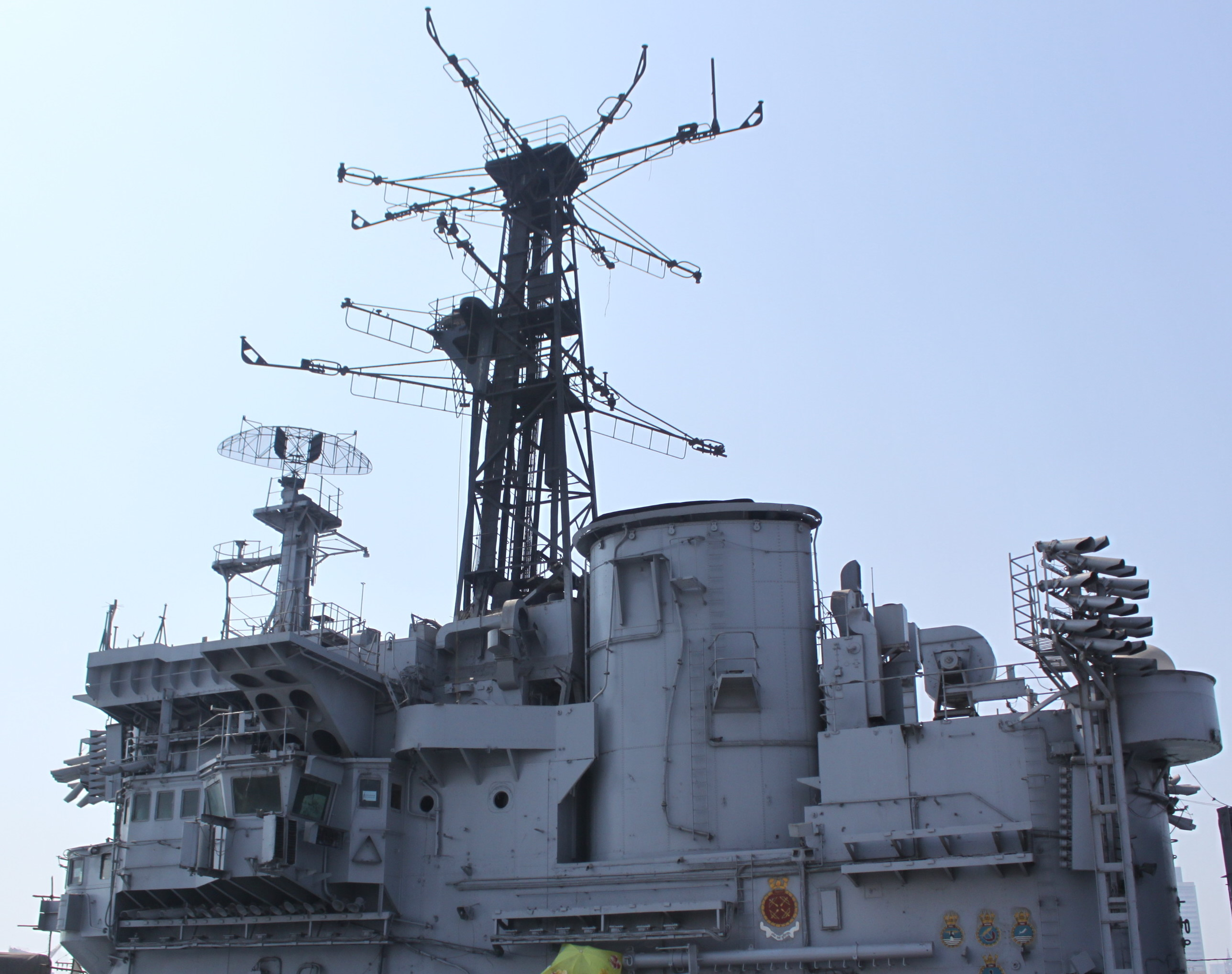 Radar on the deck of INS Vikrant, Mumbai